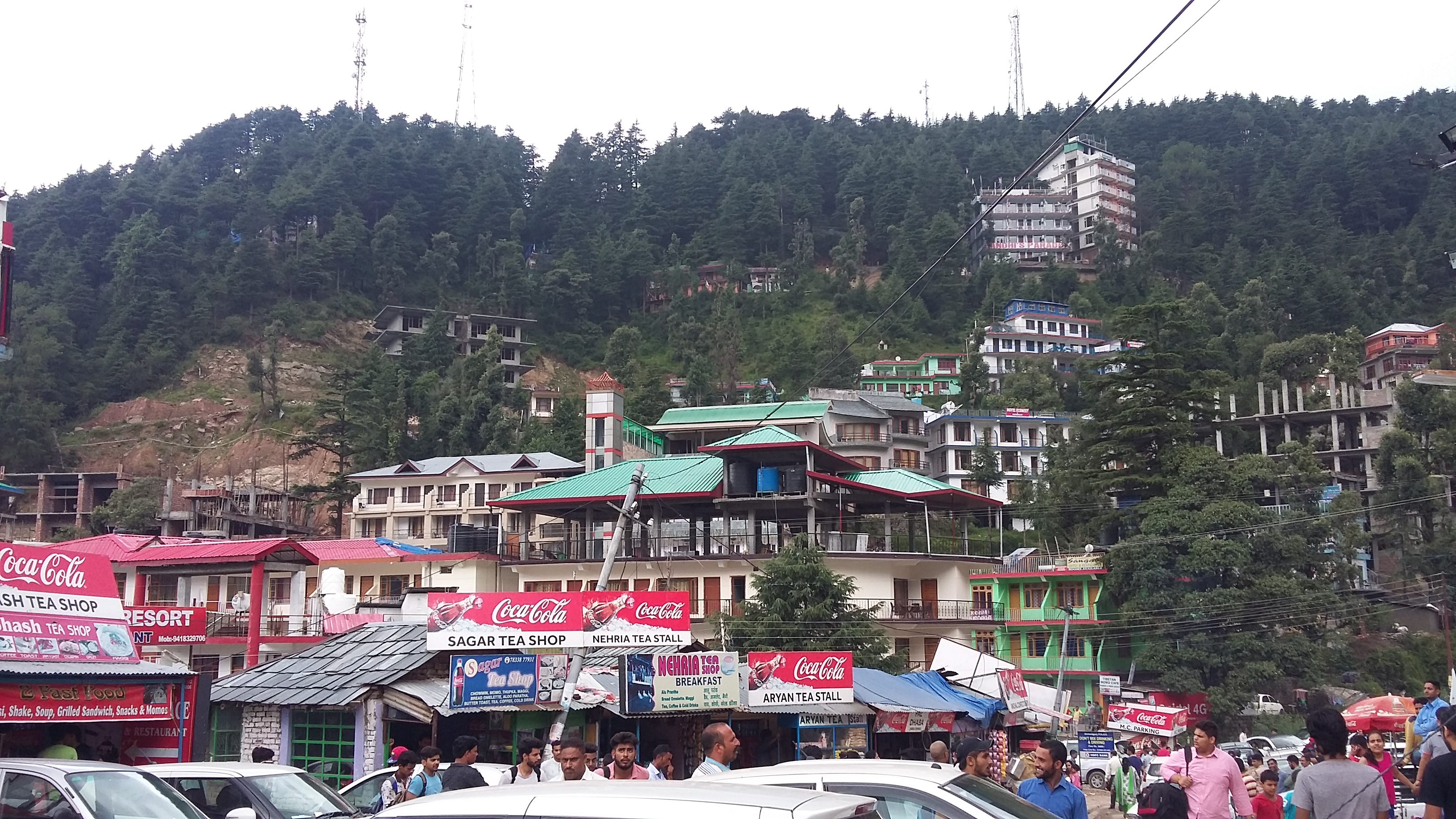 McLeodganj, ਪੰਜਾਬੀ: ਮੈਕਲੋਡ ਗੰਜ